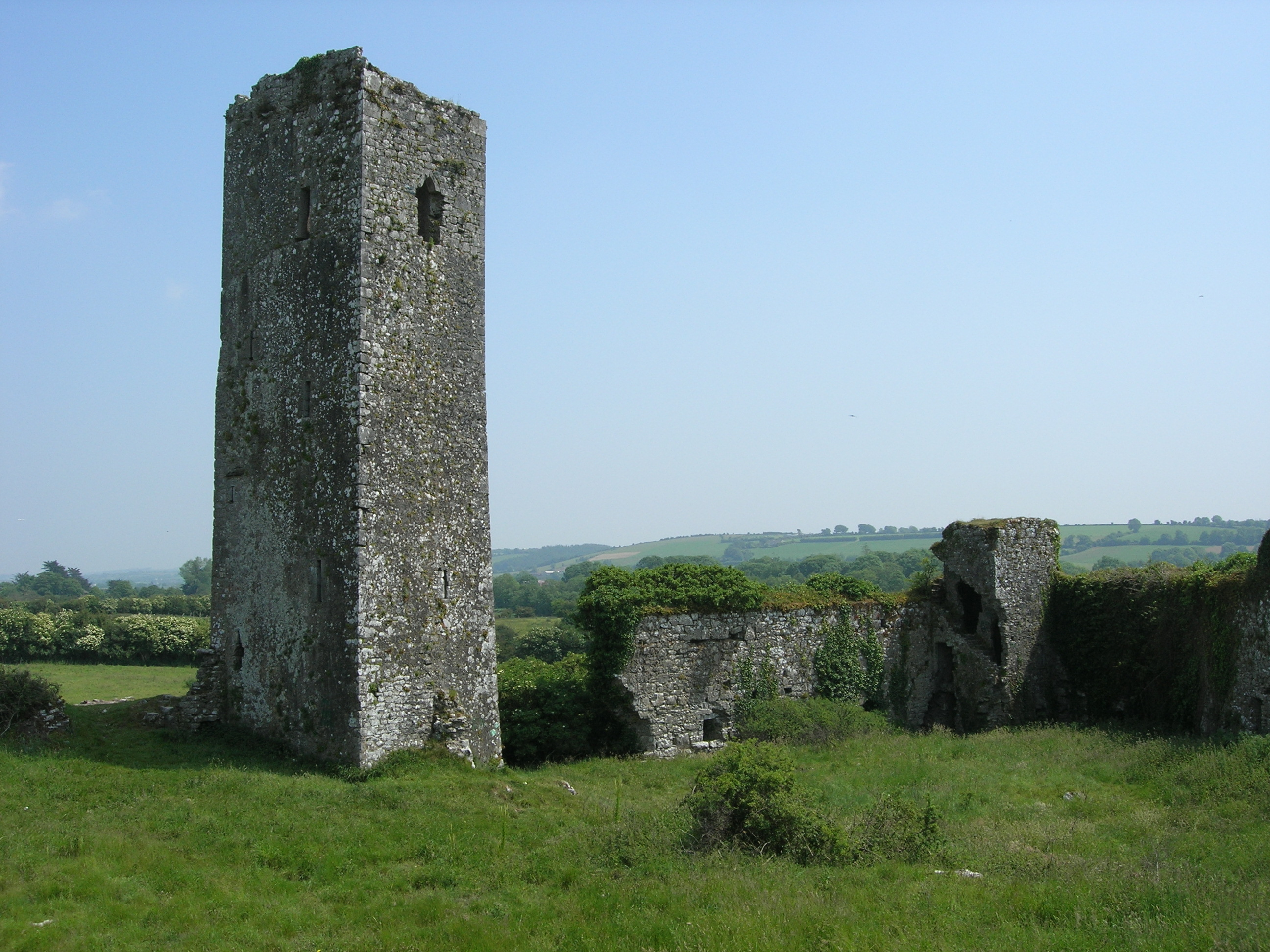 Ballincollig Castle tower and southeast wall. Picture taken from west wall. County Cork, Ireland.